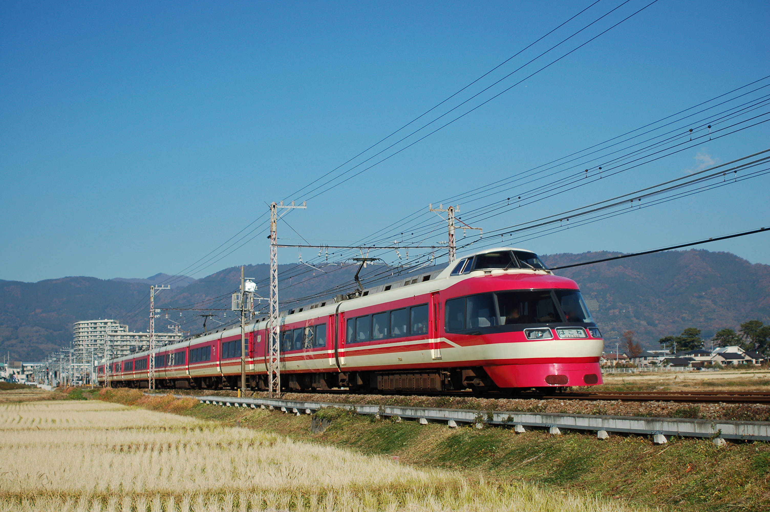 Odakyu electric railway type 7000 Romance car(LSE), renewal color. 小田急7000形ロマンスカー｢LSE｣リニューアル塗装。開成-栢山間にて。